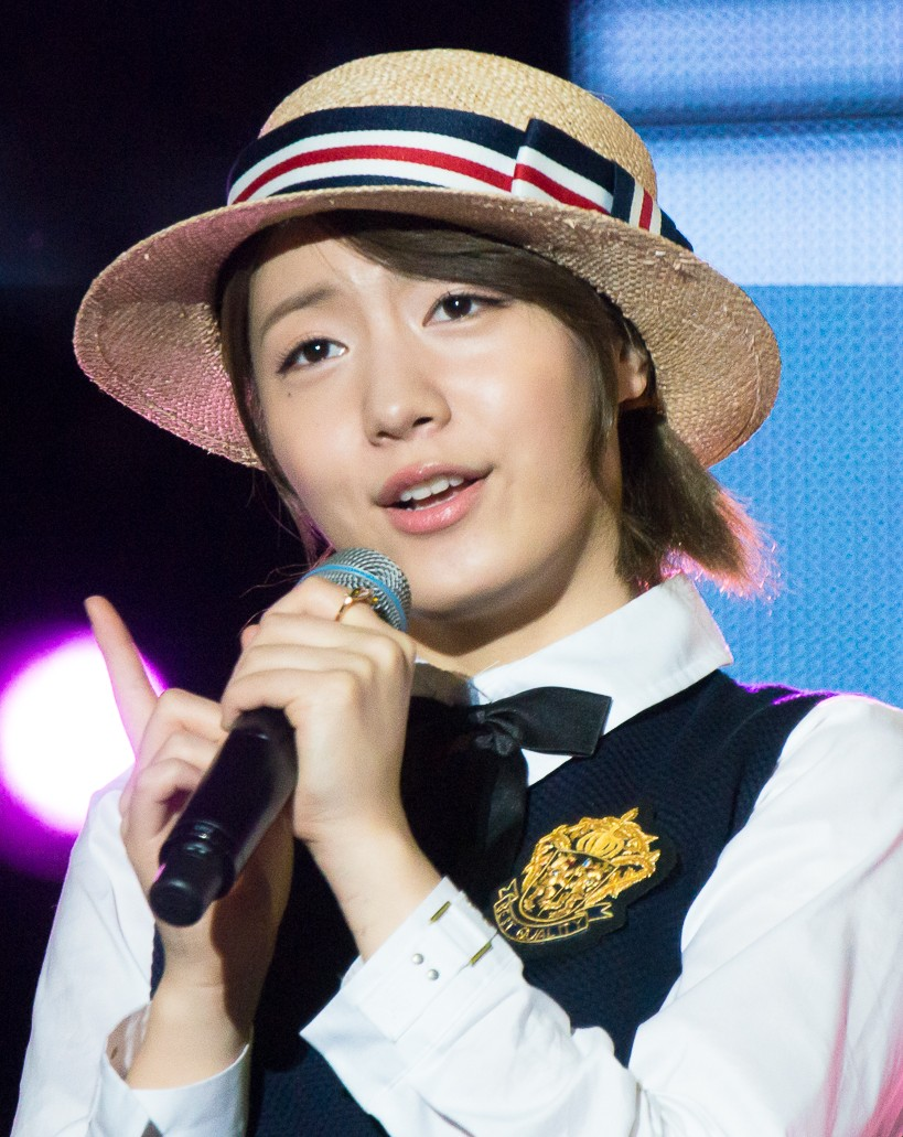 Ryu Hyo-young at Show Music Core Chuseok Special, 14 September 2013